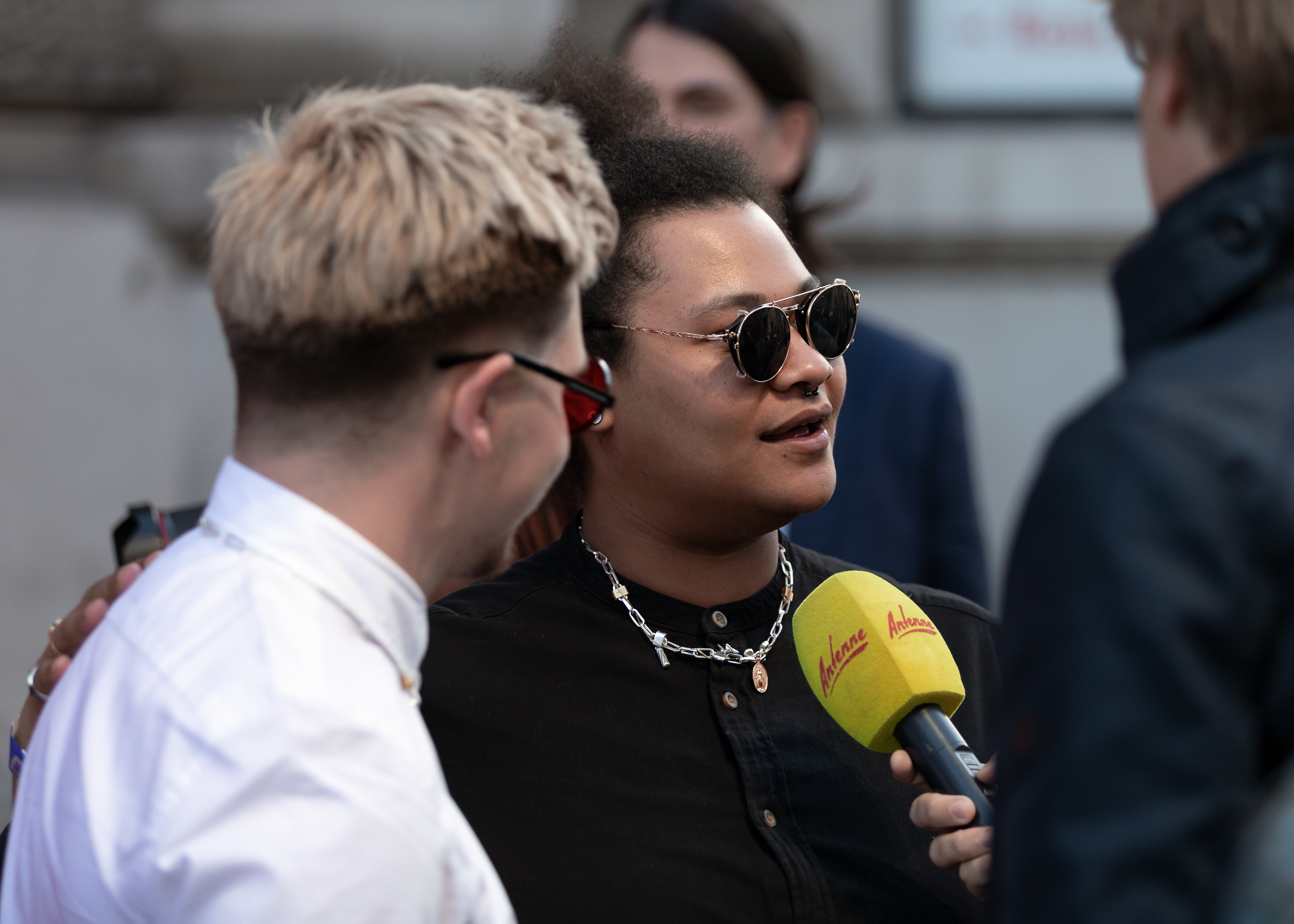 Möwe at the Amadeus Austrian Music Award 2019 at Volkstheater in Vienna.